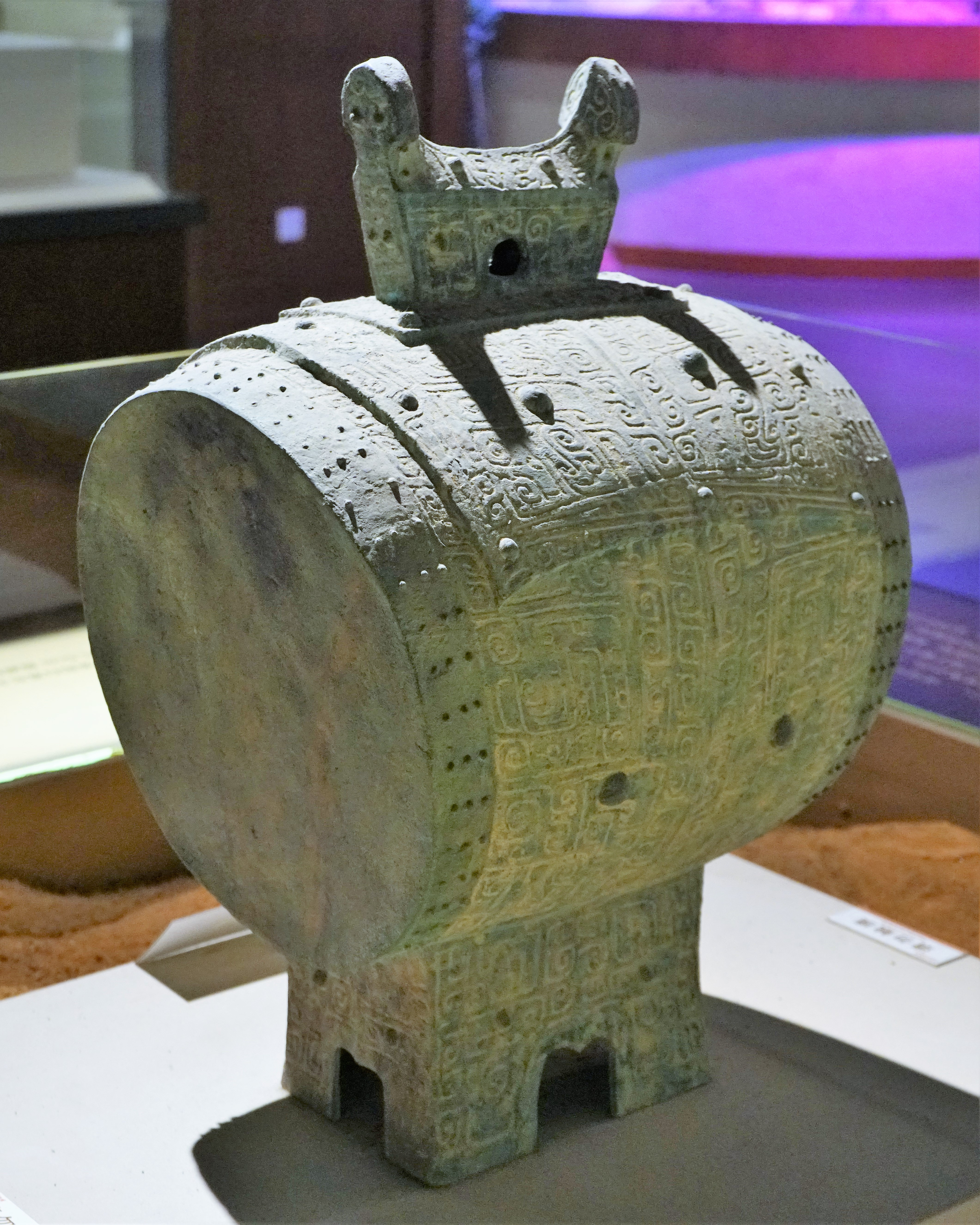 Bronze Drum with Animal Pattern